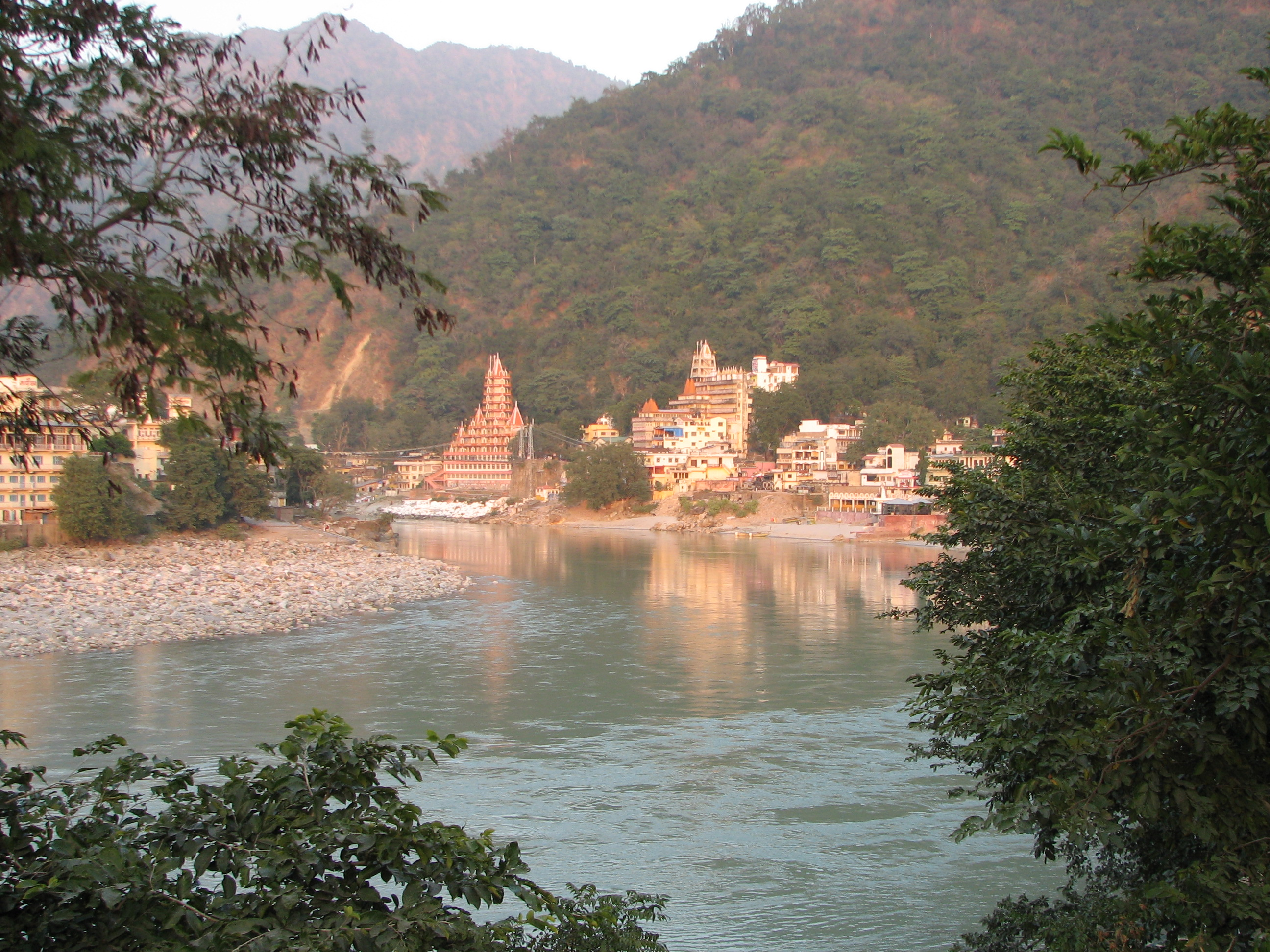 The Lakshman Jhula area and its temples, hotels and ashrams glowing in the evening sun. Rishikesh is undoubtedly a beautiful spot.